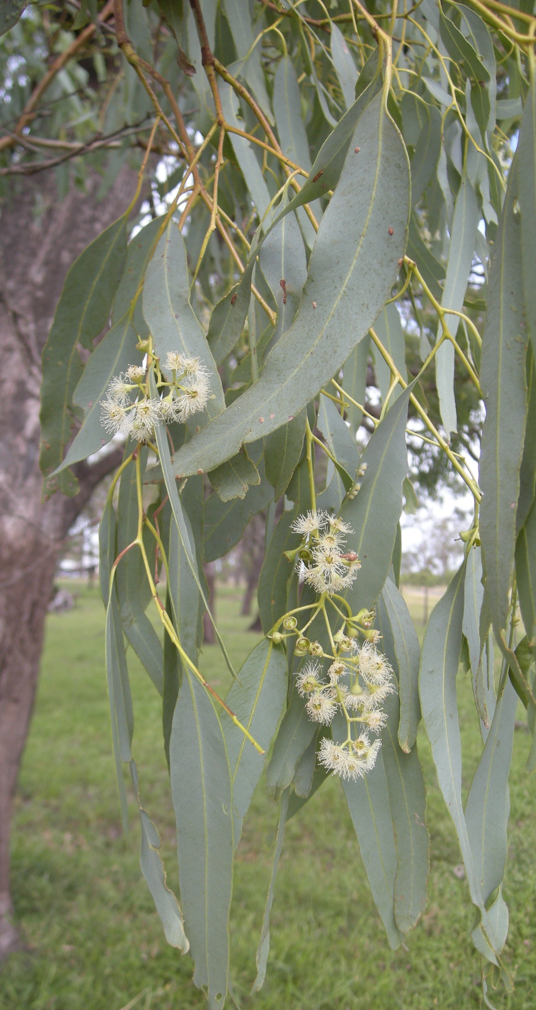 Eucalyptus coolabah flowers and foliage. Yaamba, Queensland.